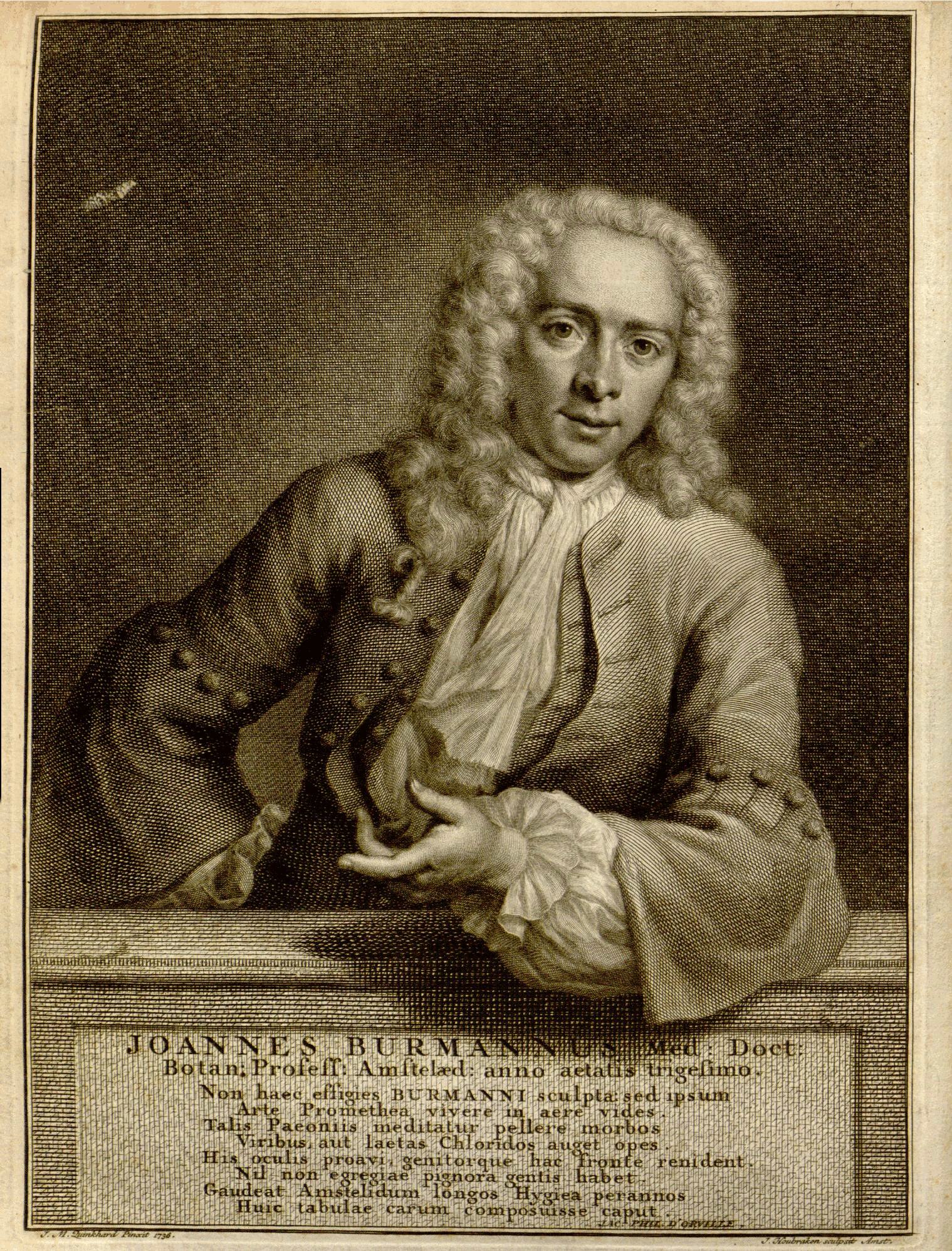 Illustration of Johannes Burman